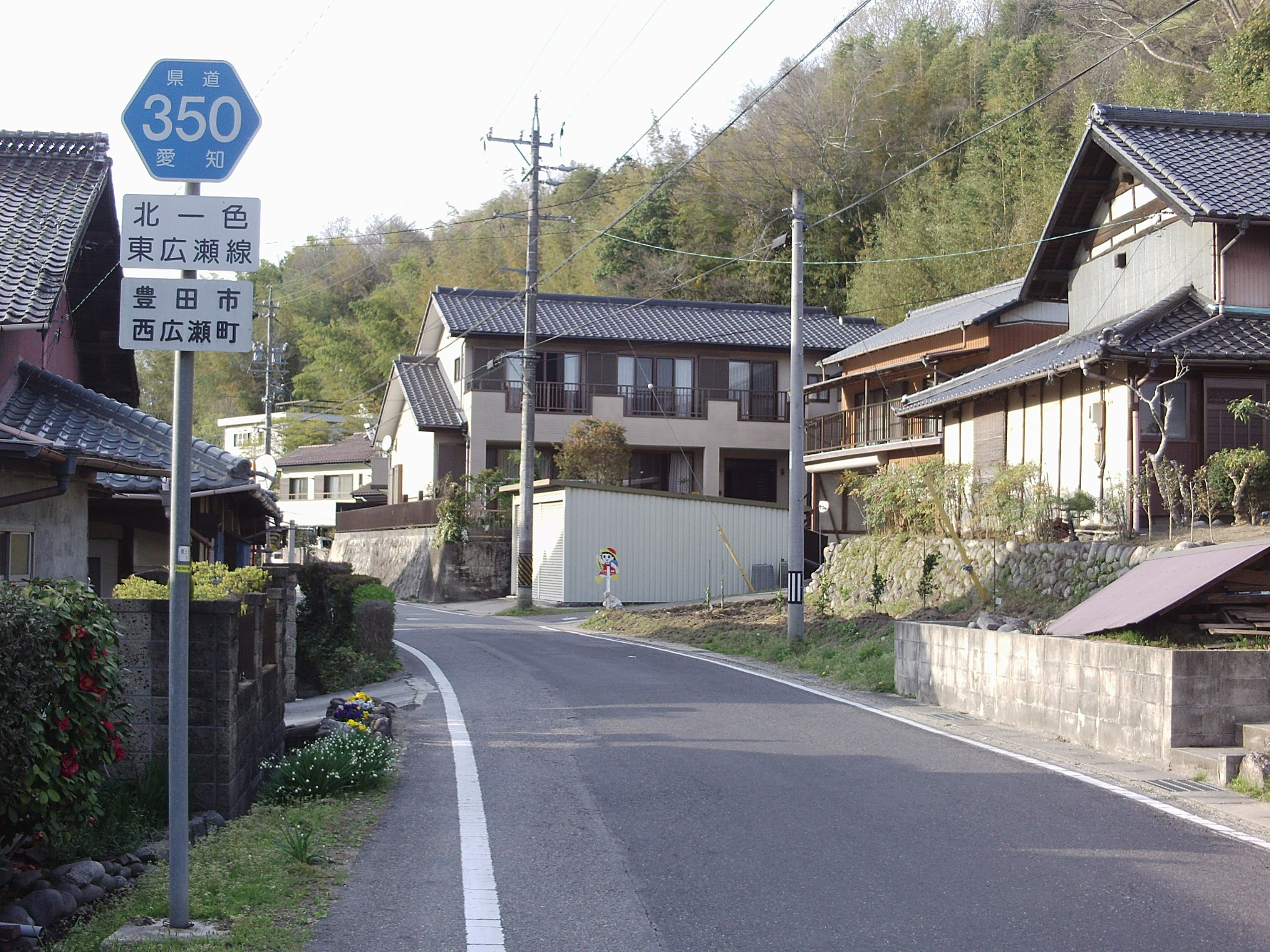 Aichi prefectural road No.350 in Nishihirosecho, Toyota, Aichi.